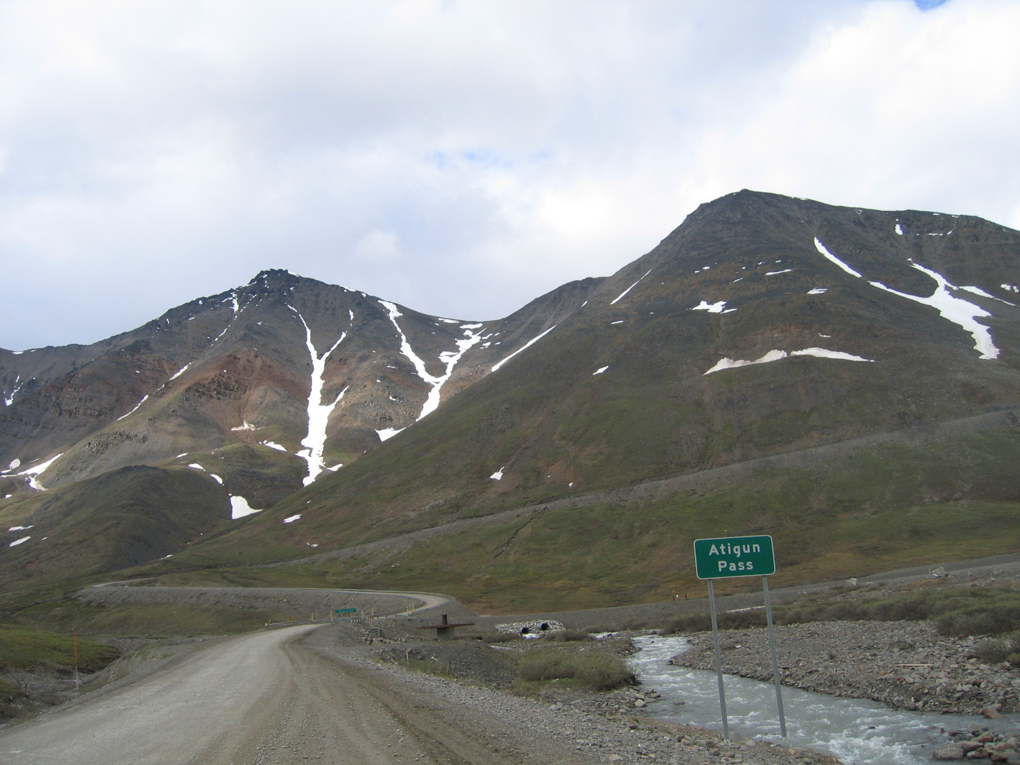 Photo by Micah Bochart